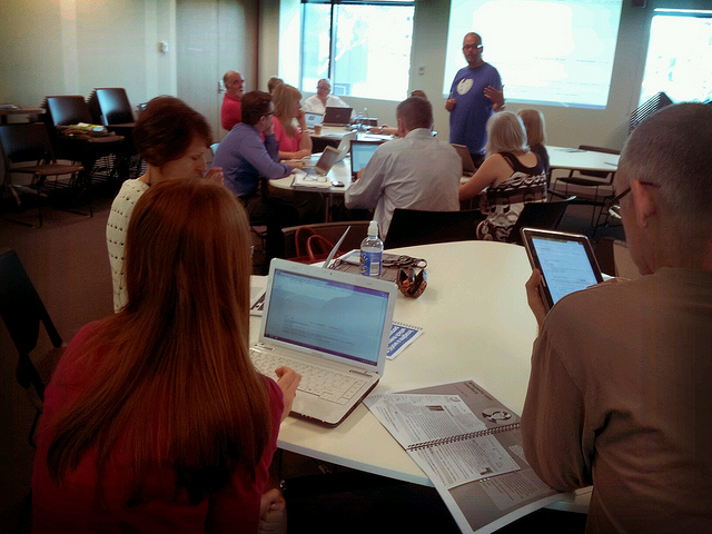 Getting started with the Bendigo Wikipedia Training Day